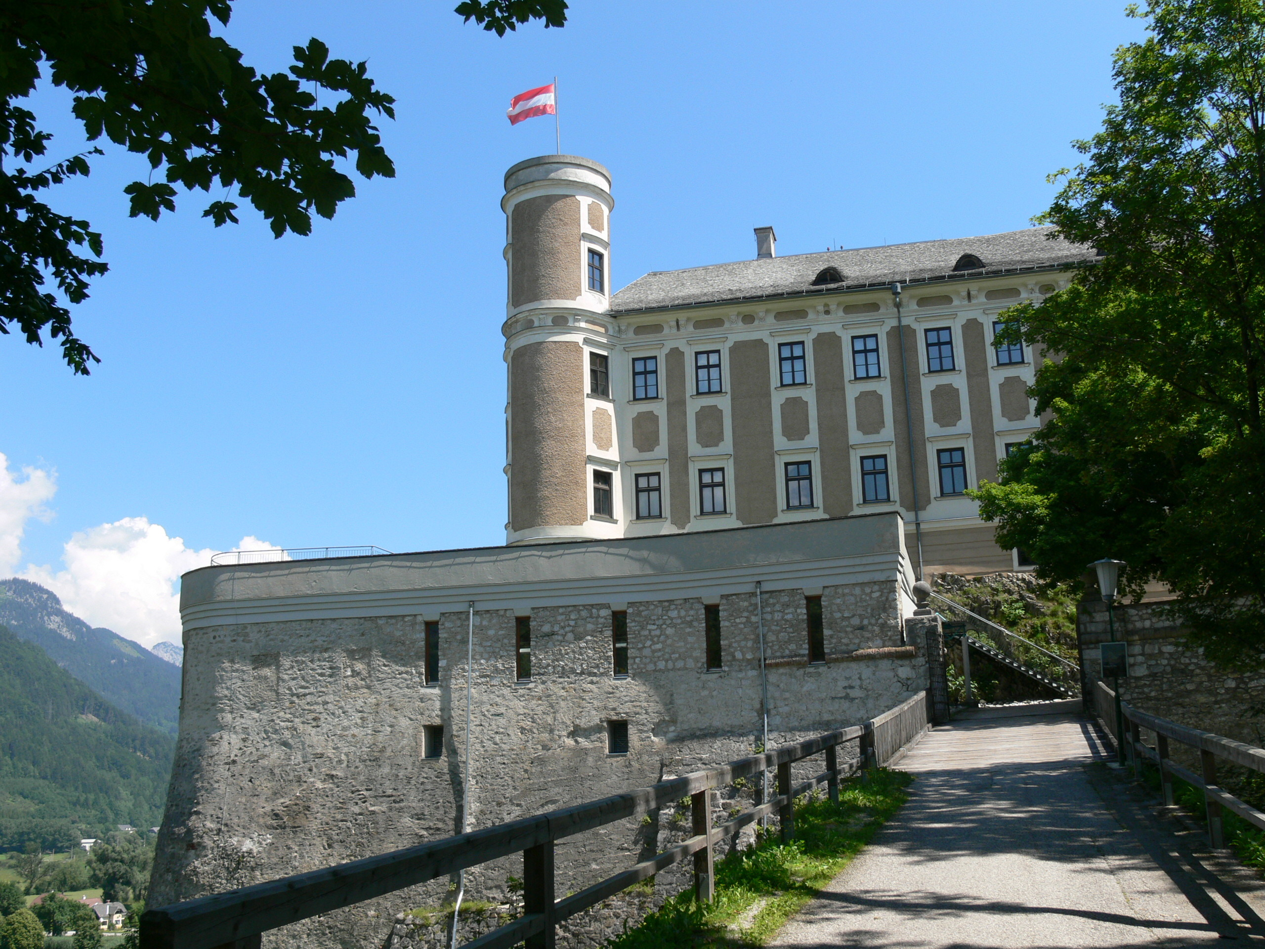 Trautenfels castle ( Styria ). Facade ( 17th century )